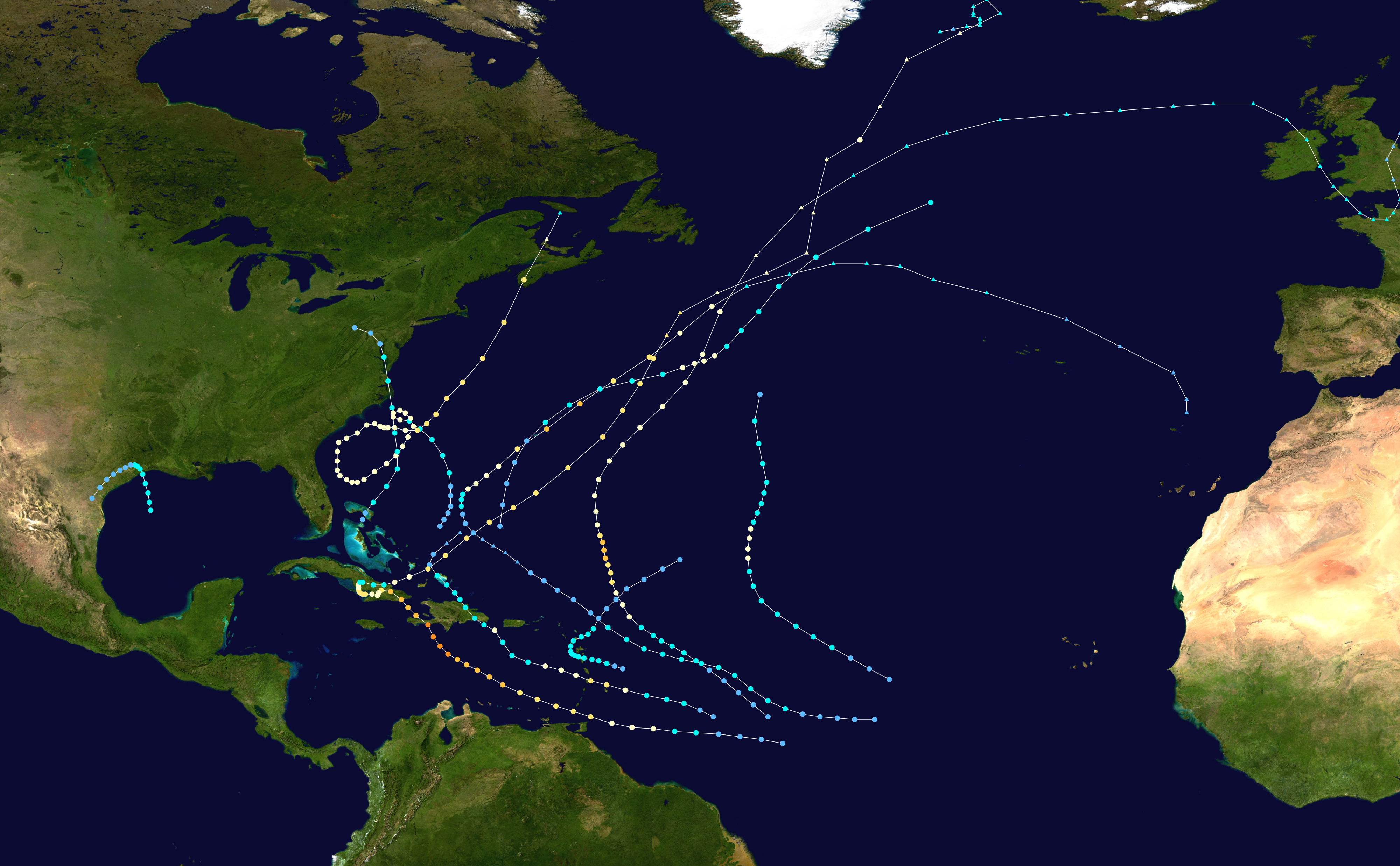 This map shows the tracks of all tropical cyclones in the 1963 Atlantic hurricane season. The points show the location of each storm at 6-hour intervals. The colour represents the storm's maximum sustained wind speeds as classified in the Saffir-Simpson Hurricane Scale (see below), and the shape of the data points represent the type of the storm. Saffir–Simpson scale Tropical depression≤38 mph≤62 km/h Category 3111–129 mph178–208 km/h Tropical storm39–73 mph63–118 km/h Category 4130–156 mph209–251 km/h Category 174–95 mph119–153 km/h Category 5≥157 mph≥252 km/h Category 296–110 mph154–177 km/h Unknown Storm type Tropical cyclone Subtropical cyclone Extratropical cyclone / Remnant low / Tropical disturbance / Monsoon depression